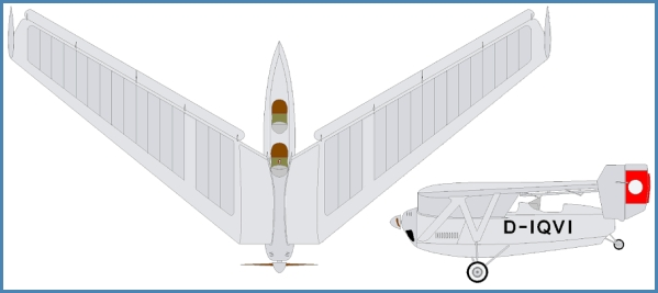 Gotha Go 147 Flying Wing